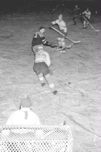 An ice hockey game in the Finnish SM-sarja between Ilves Tampere and HJK Helsinki, in December, 1949.